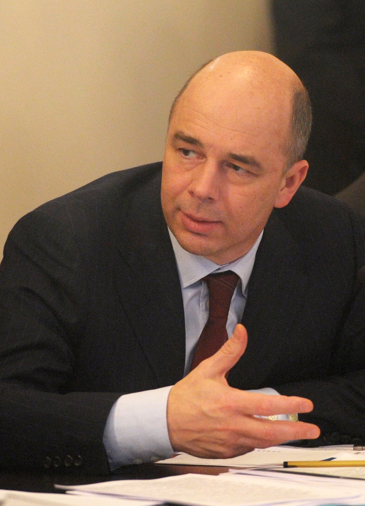 Finance Minister Anton Siluanov at the meeting of the government commission on the socio-economic development of the North Caucasus Federal District.